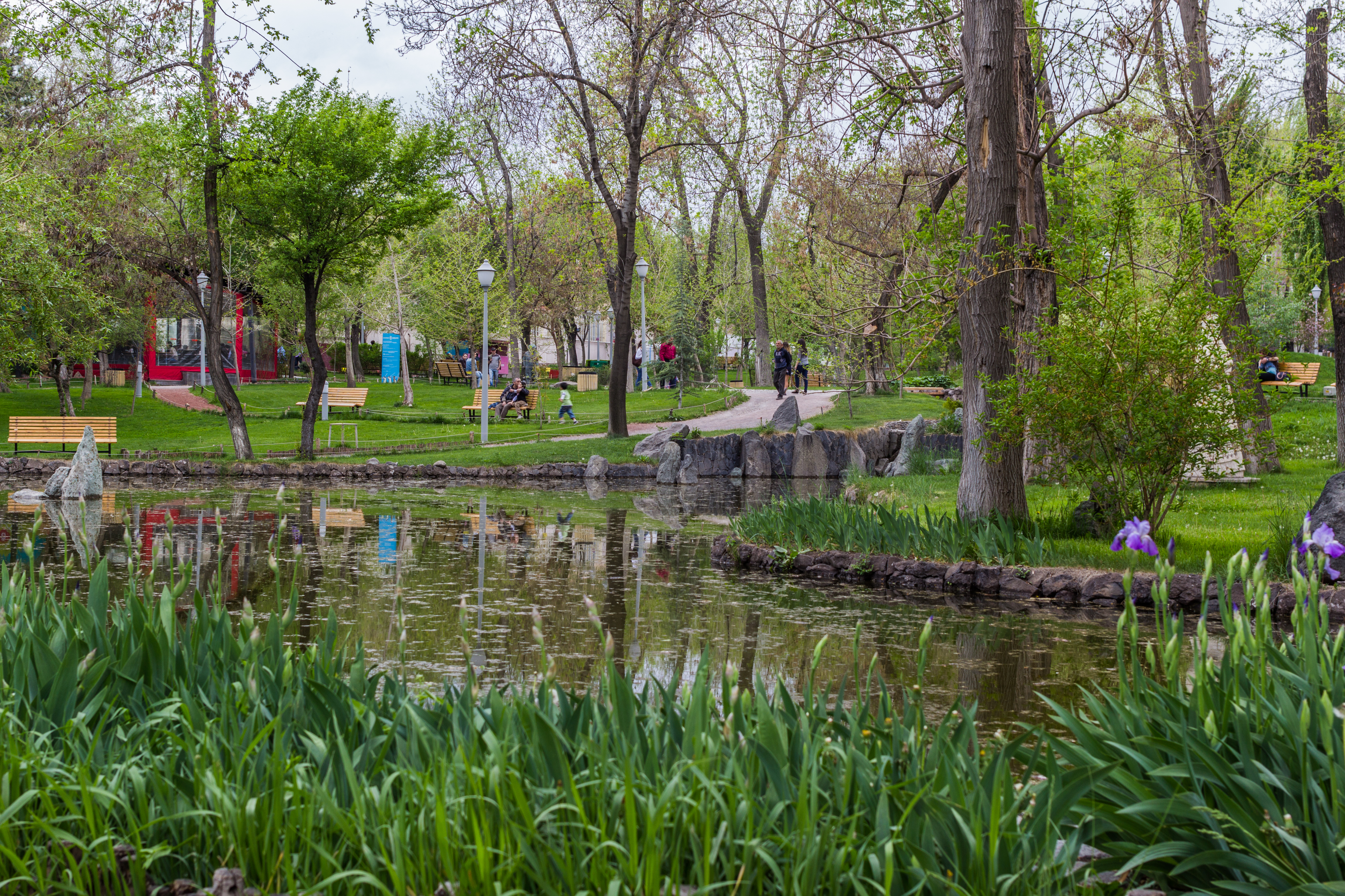 Lovers' Park in Yerevan, Armenia. The Achajour Cafe can be seen in the left.